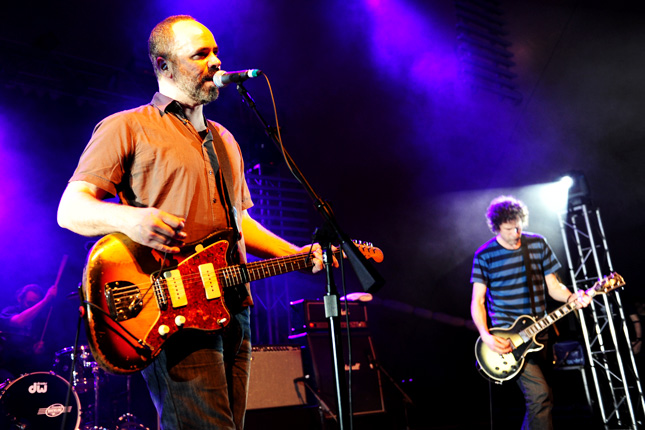 Swervedriver @ Beck's Music Box (20/2/2011)